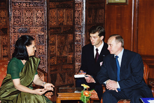 DELHI. With President of the Indian National Congress Party Sonia Gandhi.